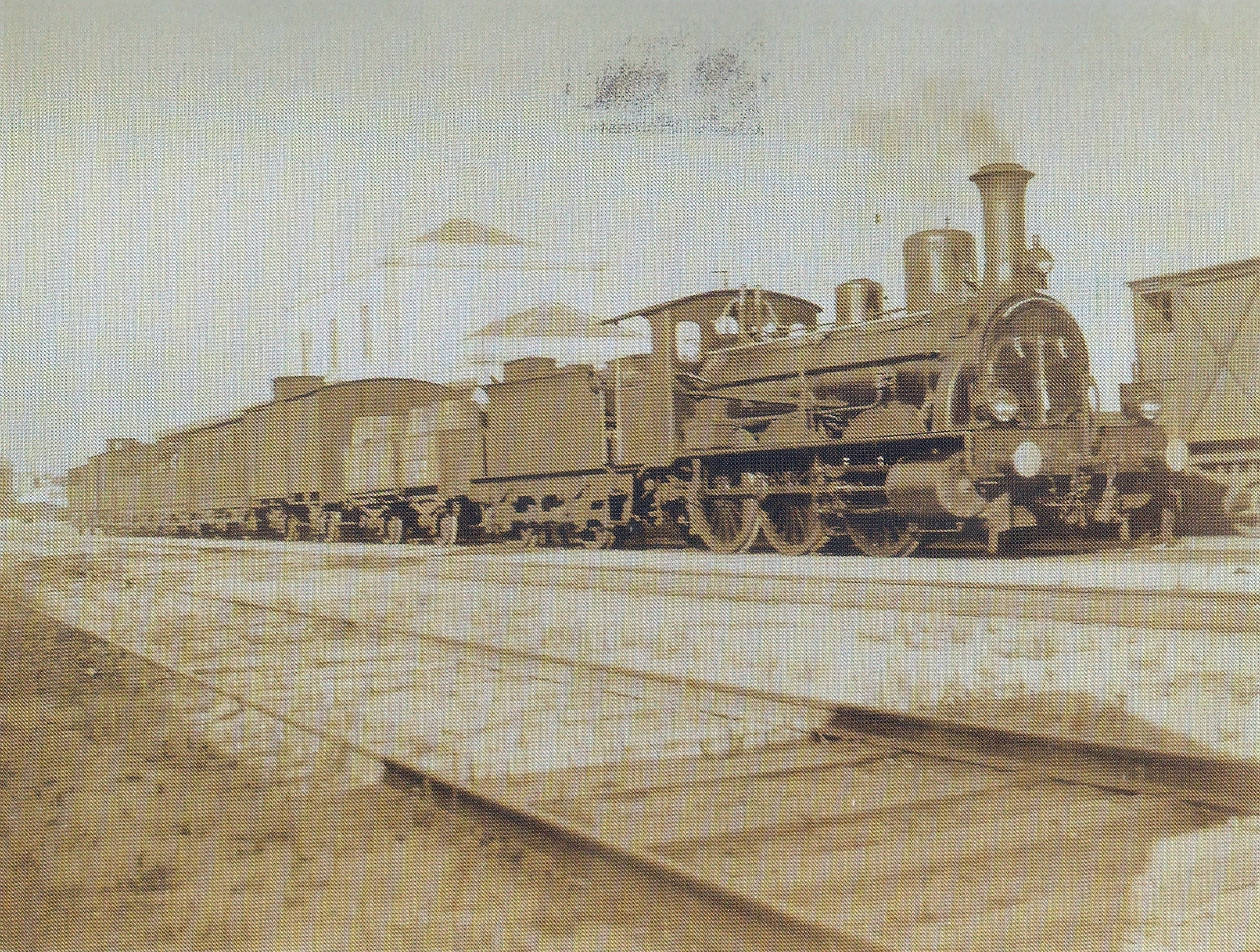 Locomotive 20 of the CFS - Caminho de Ferro do Sueste (Southeastern Railway) at Tavira, in the Algarve Railway, in Portugal. This photograph was taken between 1905, year of the inauguration of the Tavira station, and 1927, when the Caminhos de Ferro do Estado (State Railways), which the Caminho de Ferro do Sueste was part of, were integrated in the Companhia dos Caminhos de Ferro Portugueses (Company of the Portuguese Railways).